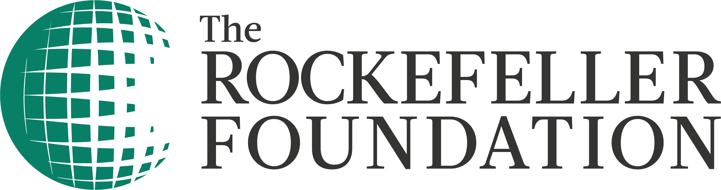 The significance of the logo is to help the reader identify the organization, assure the readers that they have reached the right article containing critical commentary about the organization, and illustrate the organization's intended branding message in a way that words alone could not convey.